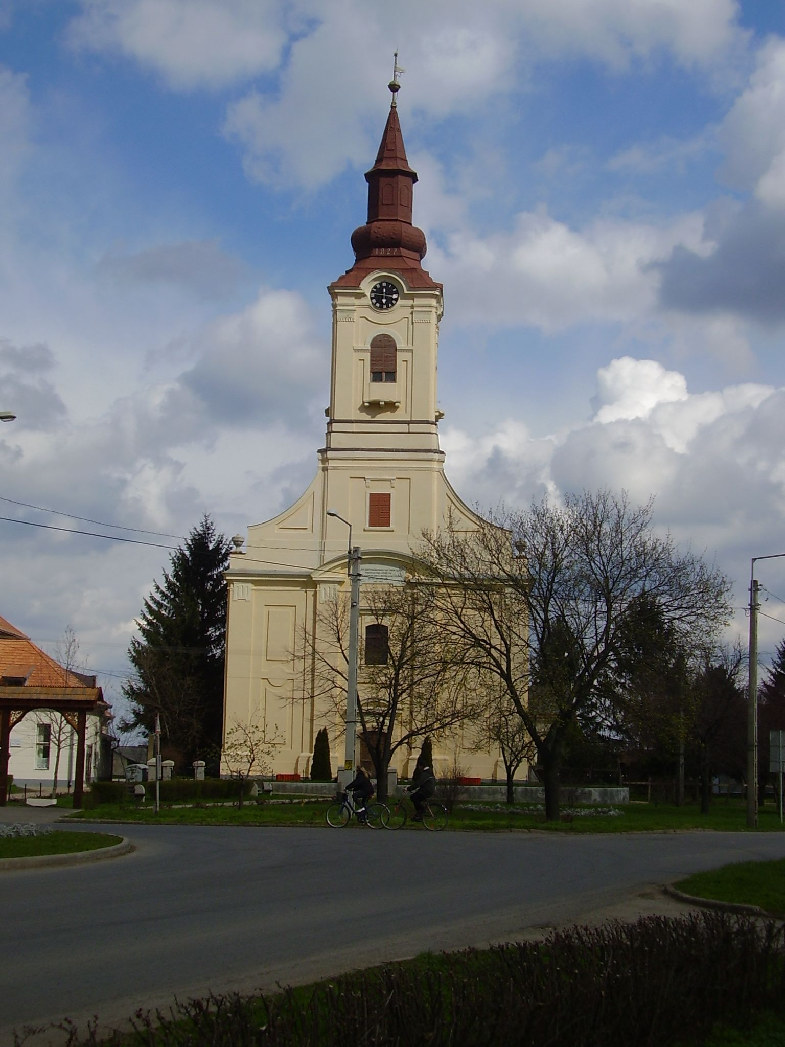 The calvinist (reformed) church in Füzesgyarmat